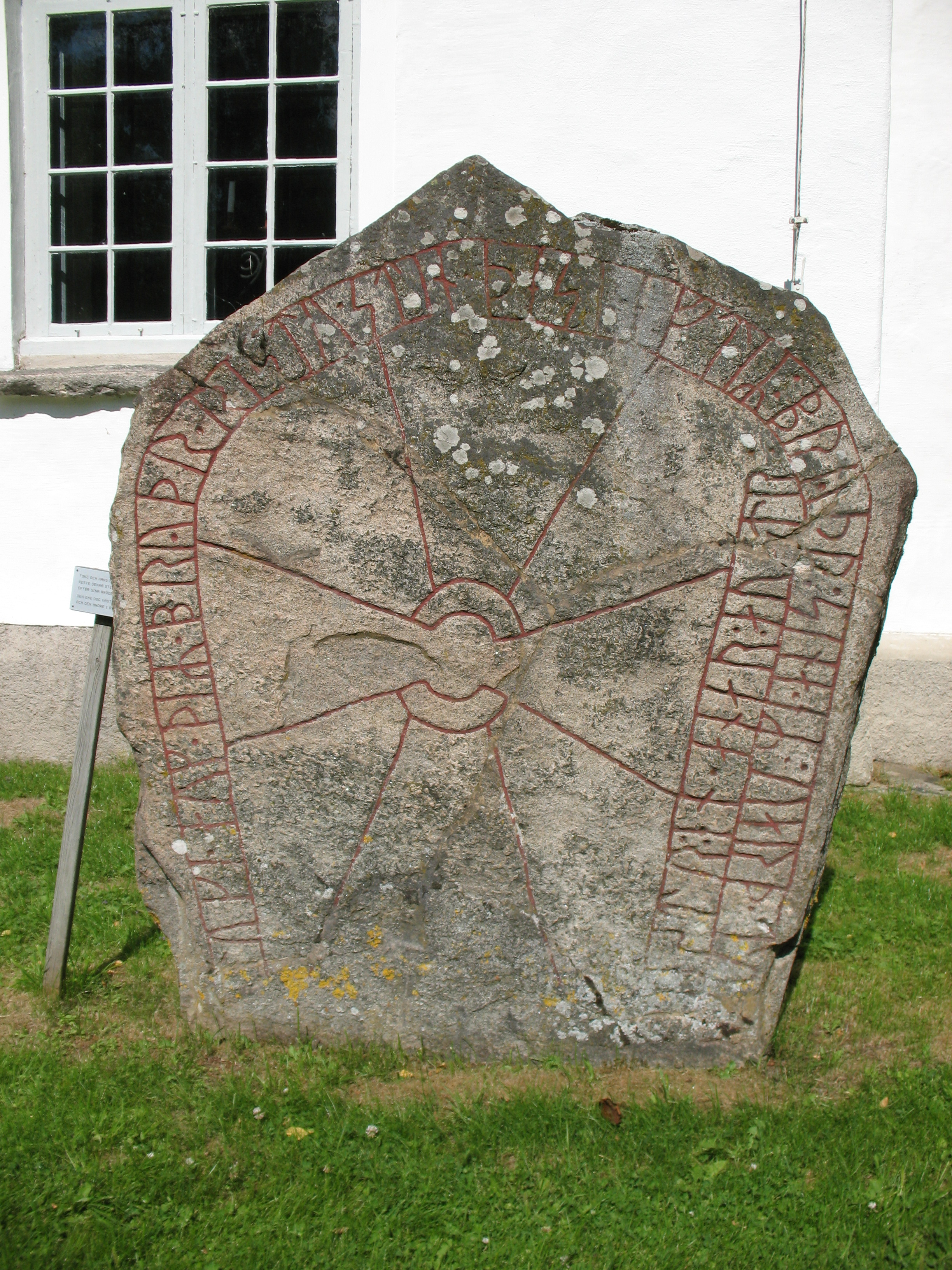 runestone Vg 197, Dalum, Sweden.